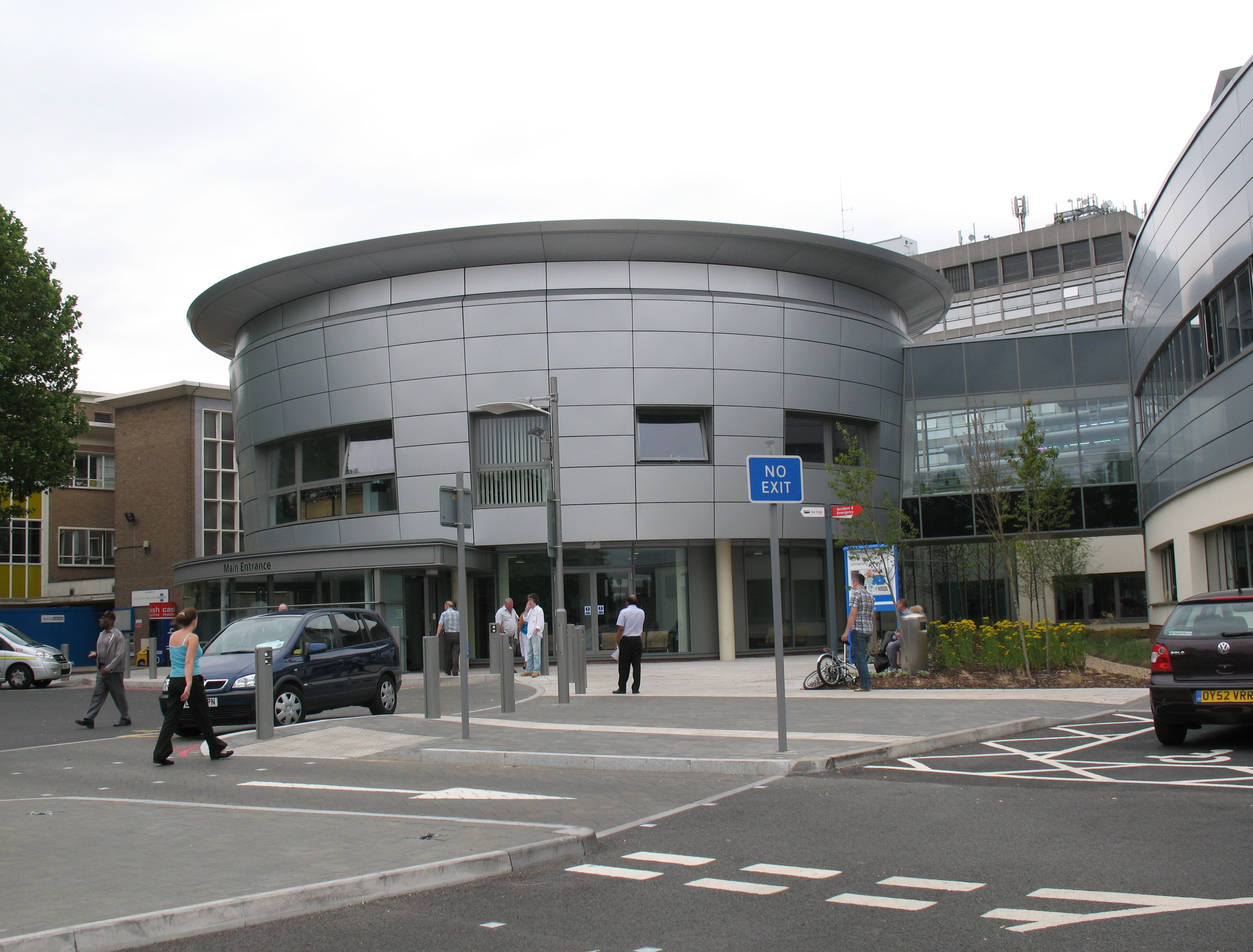 ¯¯¯¯¯¯¯¯¯¯¯¯¯¯¯¯¯¯¯¯¯¯¯¯¯¯¯¯¯¯¯¯¯¯¯¯¯¯¯¯¯¯¯¯¯¯¯¯¯¯¯¯¯¯¯¯¯ 27 July 2010. North Middlesex Hospital. New building main entrance. I keep hearing about the "terrible mess" left by the outgoing Labour Government. Going to my local hopsital for some tests, I kept looking for the mess but all I could see were brand new NHS buildings. Never mind, I expect the private sector companies will soon be invited in to make very tidy profits.